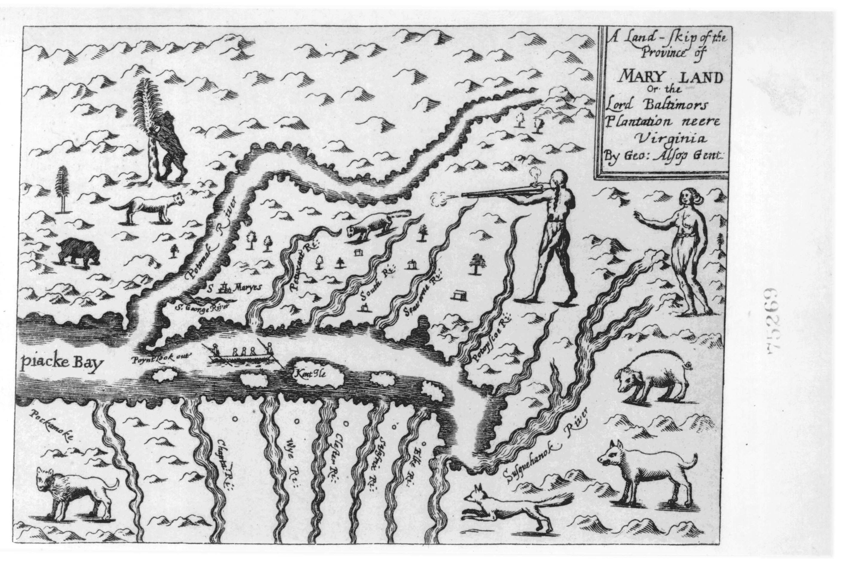 Map of Colonial Maryland from: George Alsop, A land-Skip of the Province of Mary land, 1666 [1869], in Gowan's Bibliotheca Americana